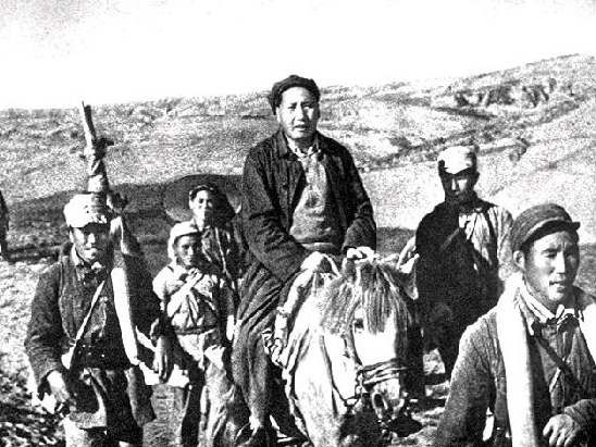 Mao Zedong in the Northern Shaanxi during the second civil war, 1947.